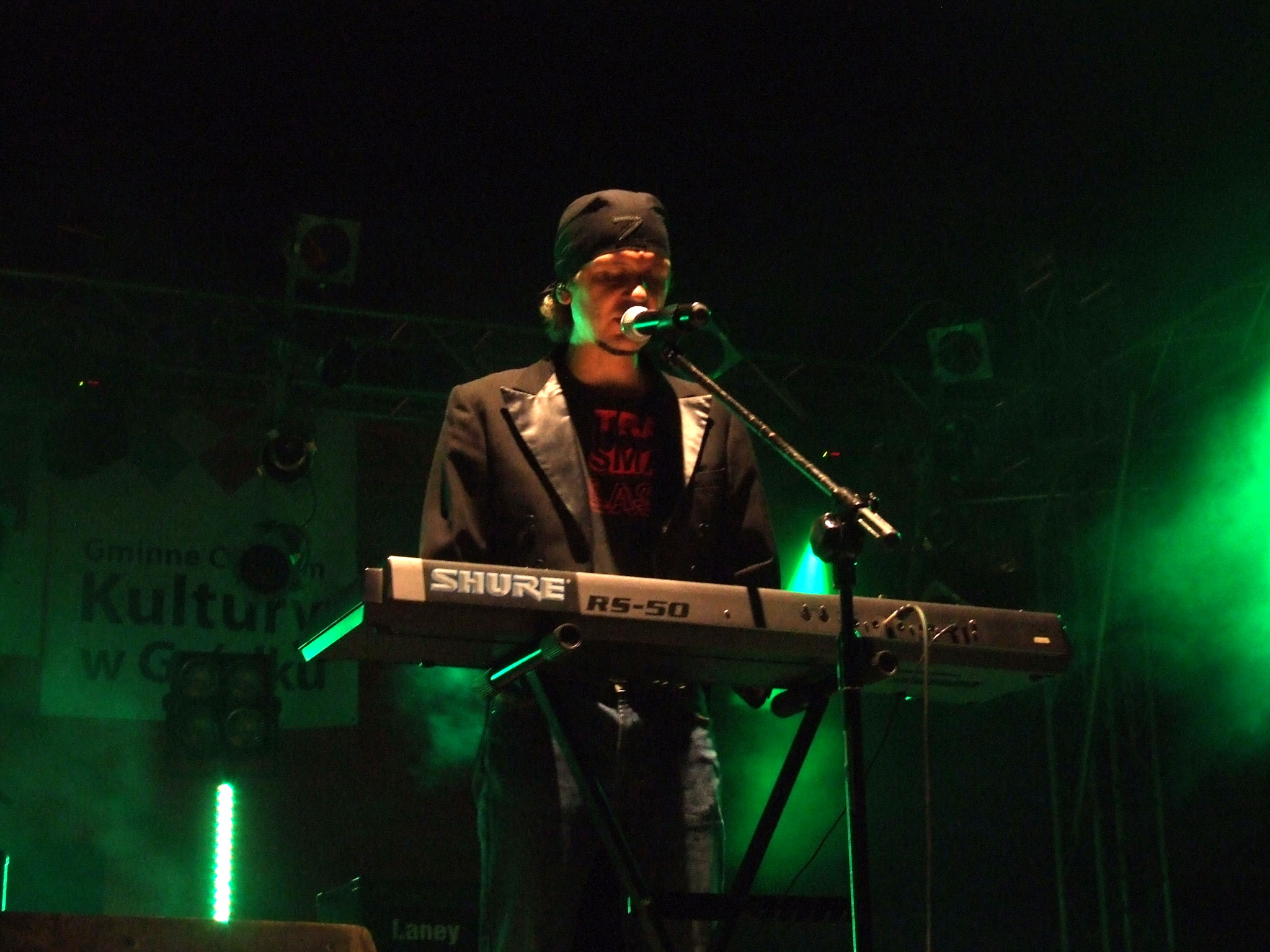 Lavon Volski, a keyboardist and vocalist from Belarus, at Basovišča festival